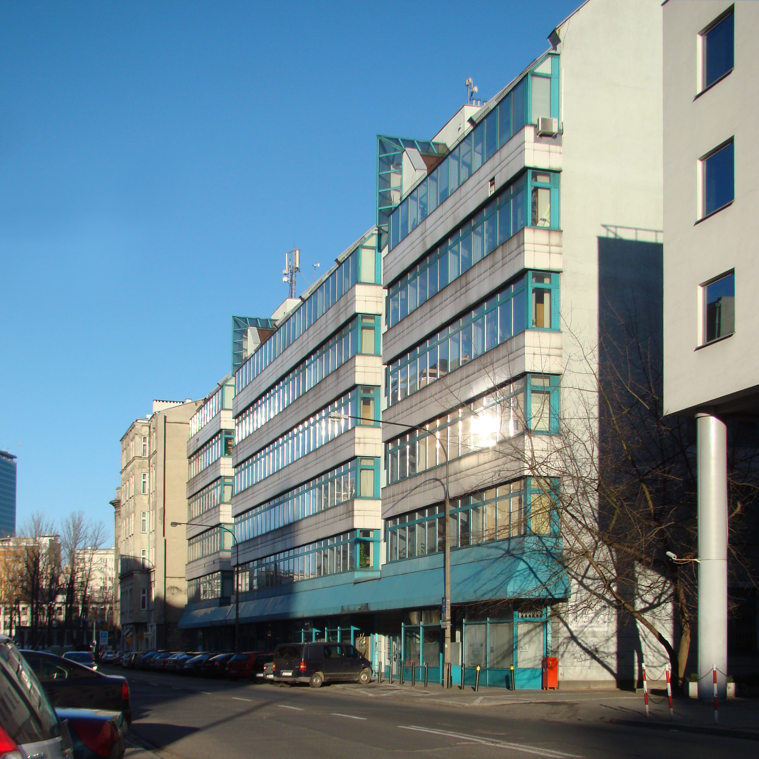 Polish Academy of Sciences - Geography, Geology, Paleobiology, Parasitology